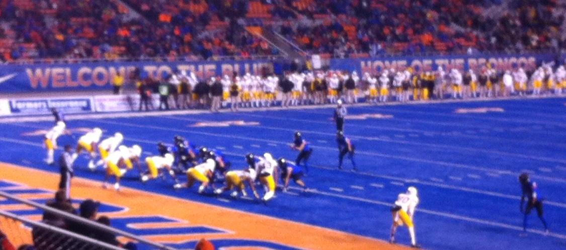 Boise State offense in the redzone vs Wyoming during their game on November 16 at Bronco Stadium in Boise, Idaho. Boise State offense in the redzone vs Wyoming during their game on November 16 at Bronco Stadium in Boise, Idaho.